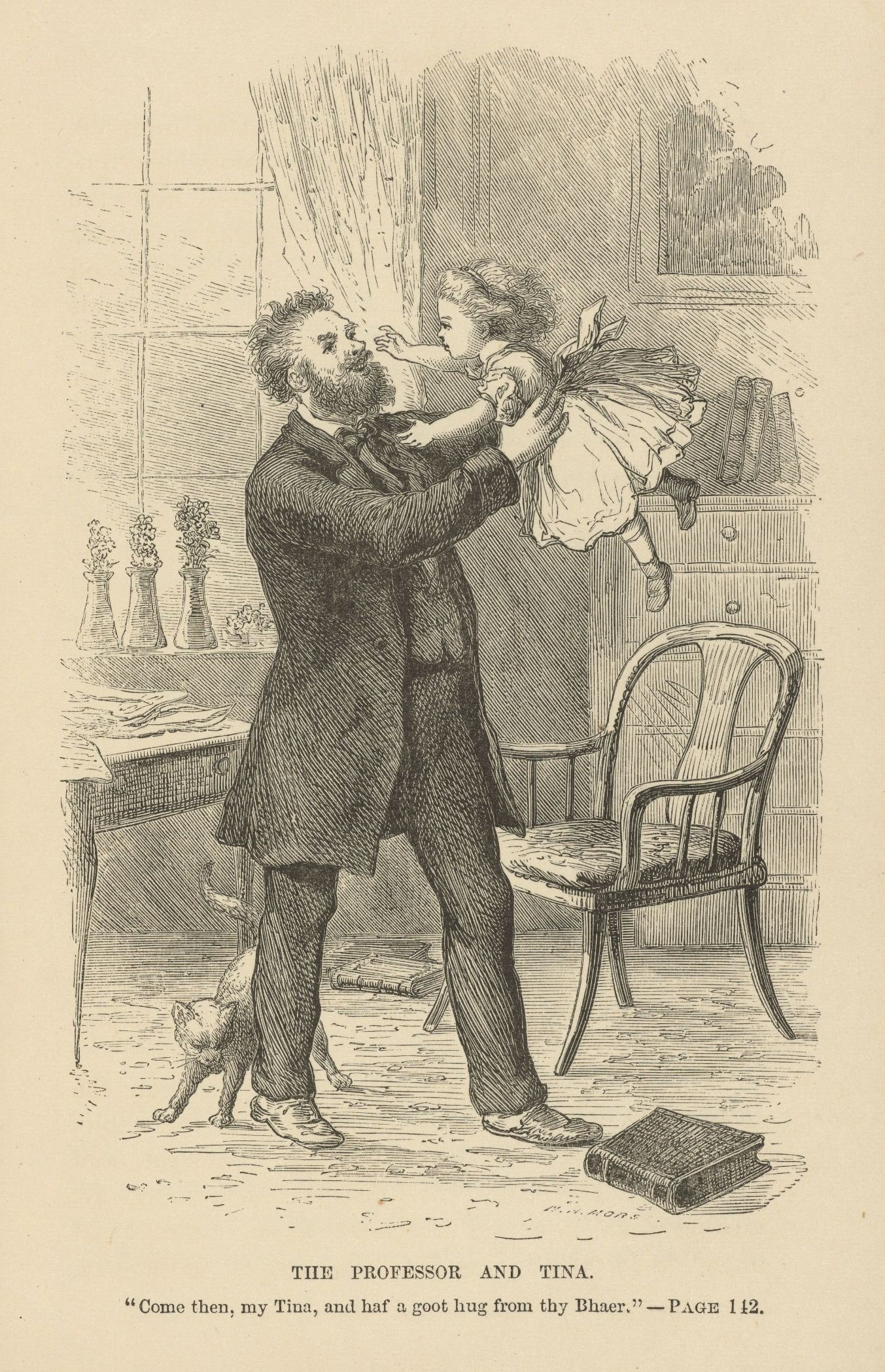 Illustration from: Little Women, volume II, by Louisa May Alcott (1832-1888). Boston: Roberts Brothers, 1869. *AC85.Aℓ194L.1869 pt.2aa, Houghton Library, Harvard University